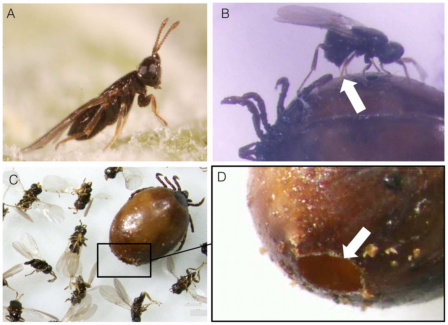 Tick wasp biology